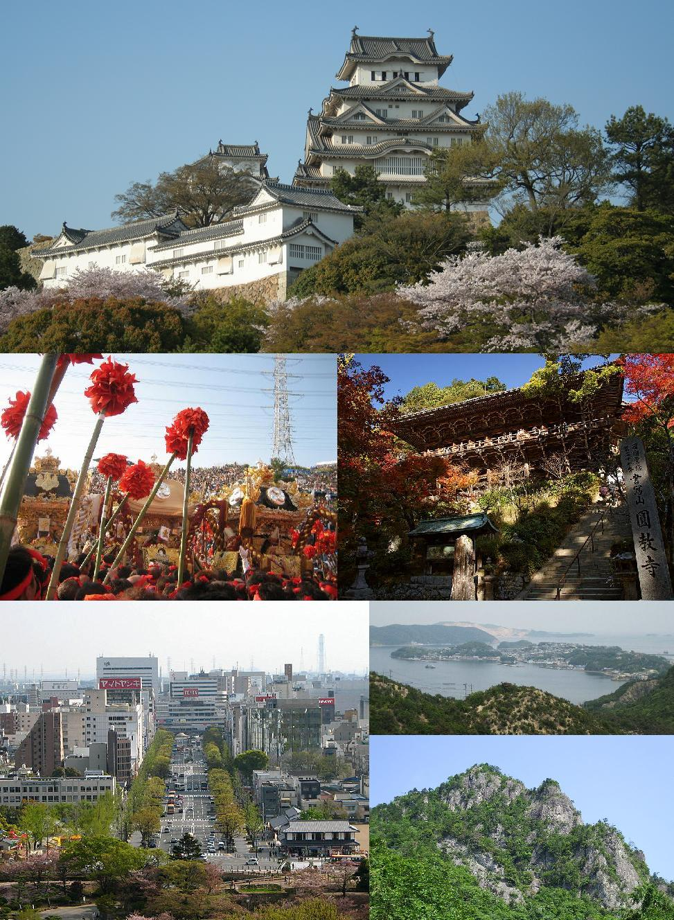 From top: Himeji Castle, Nada no Kenka Matsuri, Engyō-ji Temple, Central Himeji viewed from Himeji Castle, Ieshima Islands, Mount Seppiko.